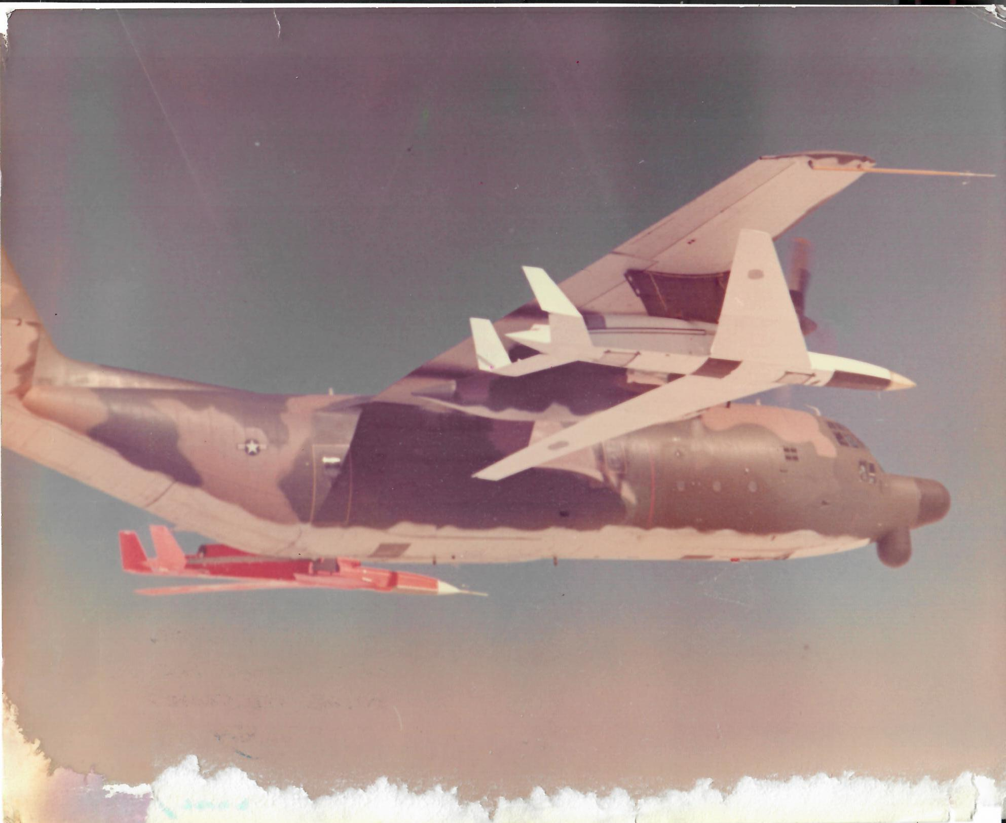 Model 154/ Compass arrow on c130